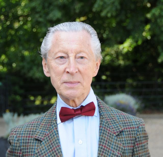 Murray Melvin as The Professor in short comedy, The Grey Mile. July 2011.